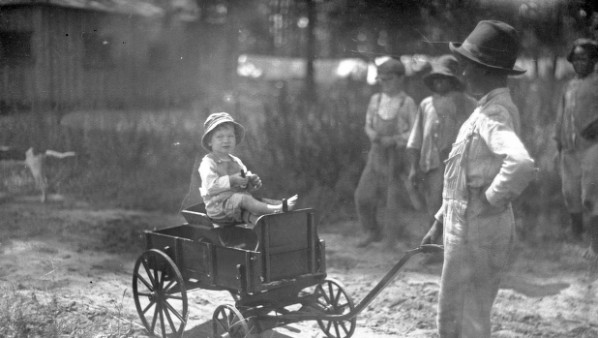 A group of boys stand near as an African-American boy pulls a smaller boy in a wooden, four-wheeled wagon.